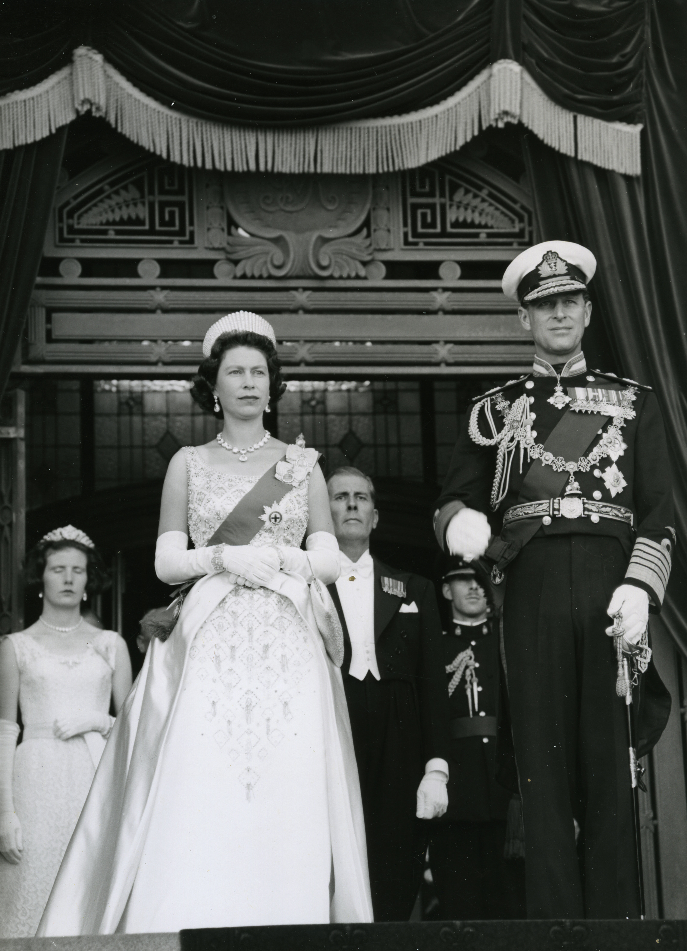 Her Majesty Queen Elizabeth II and the Duke of Edinburgh, Prince Philip at the opening of the New Zealand Parliament in 1963.